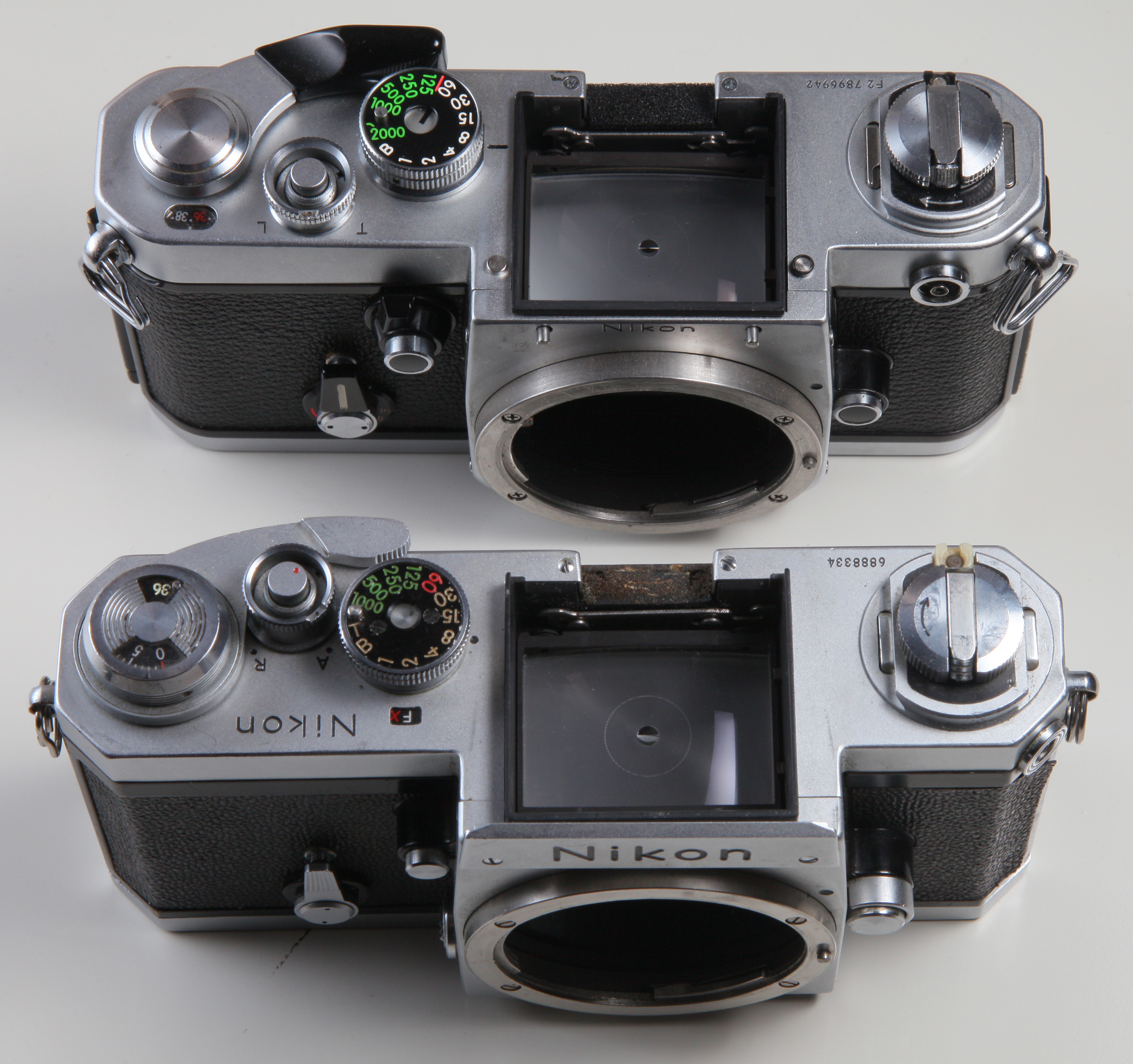 Comparison of two Nikon professional cameras: F & F2 without pentaprism and lenses. Bottom Nikon F body, above Nikon F2 body.